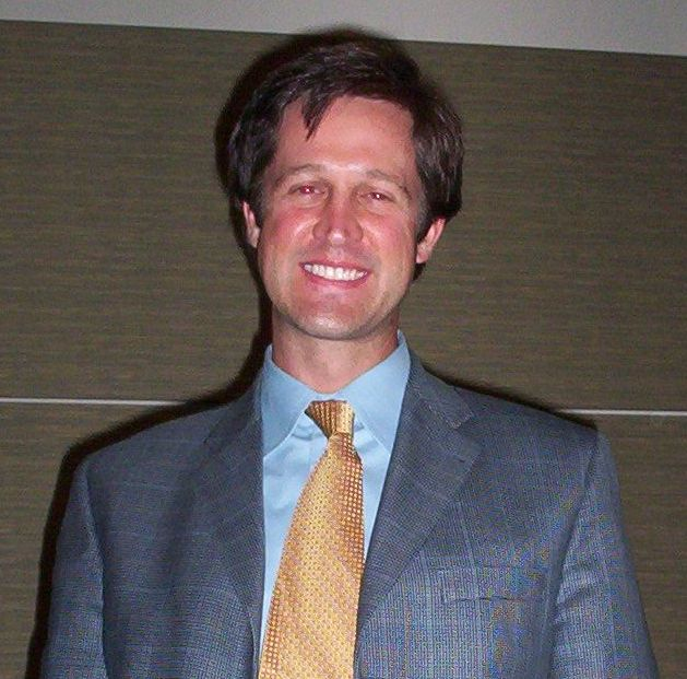 Keith Fagnou at the ACS national meeting in Boston in August 2007